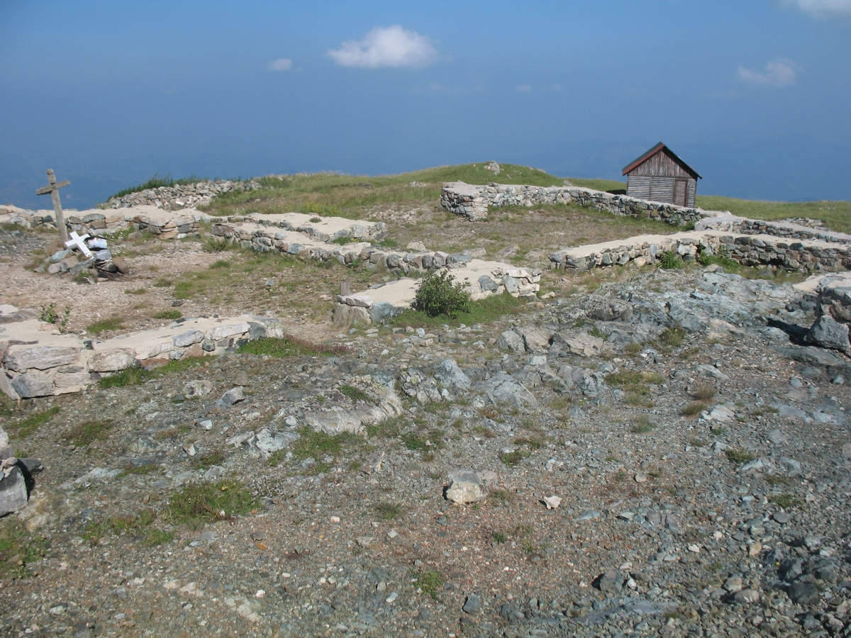 View on Nebeske stolice (Cellestial chairs) archaeological site below Pančićs peak on Kopaonik,Serbia.